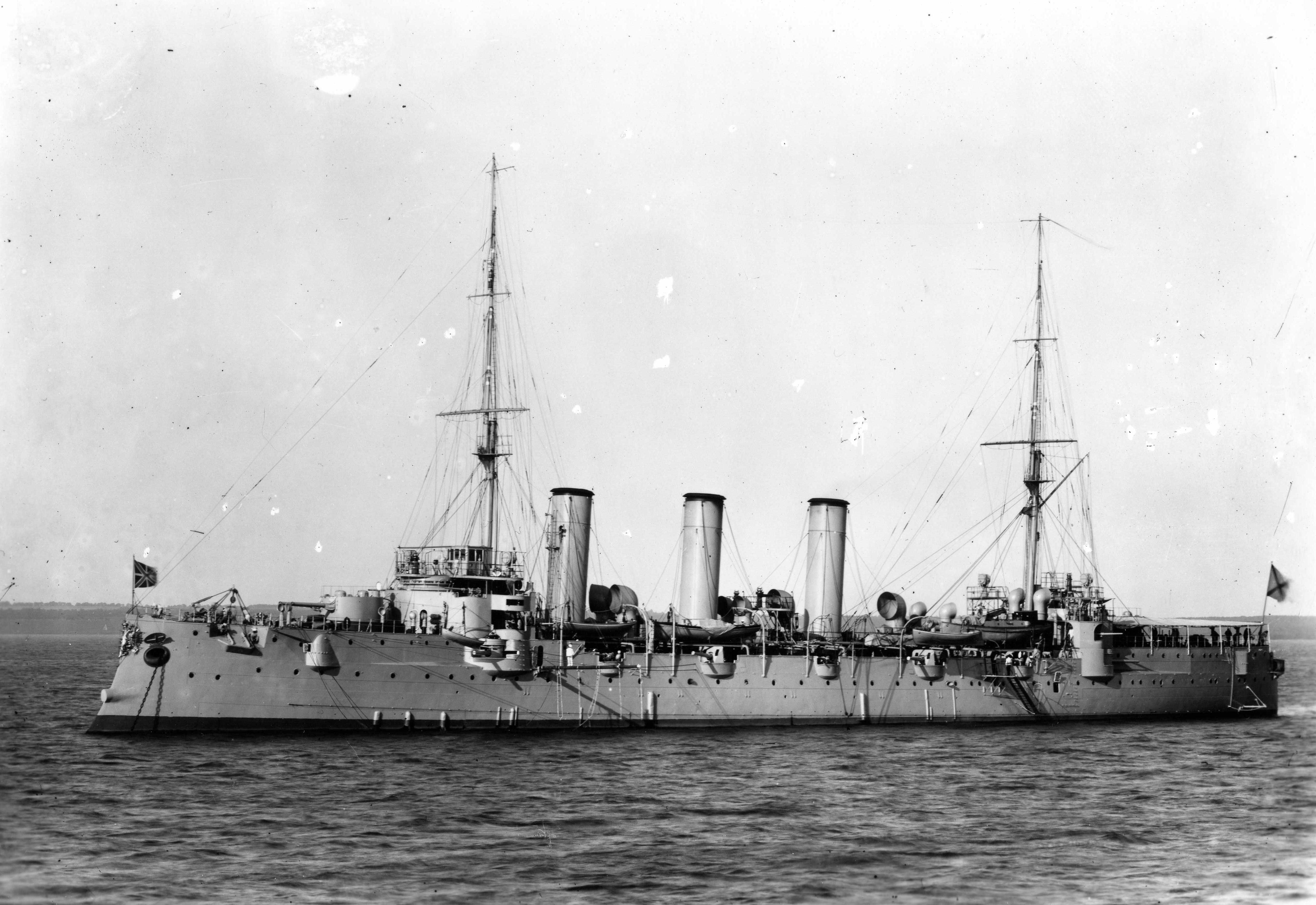 Imperial Russian cruiser Bogatyr'.